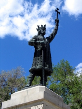 stefan cel mare